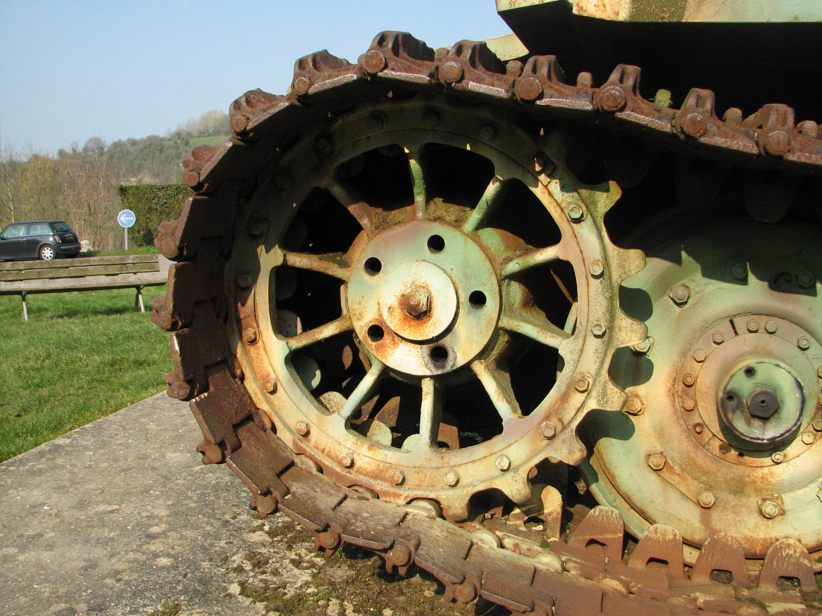 track of the Vimoutiers Tiger tank